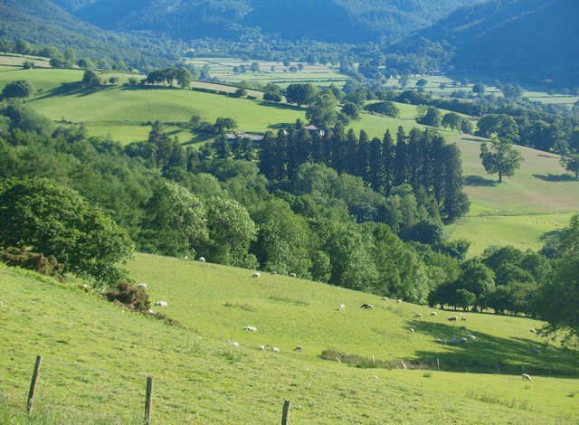 Dyffryn Conwy o Fwlch y Gwynt / Conwy Valley from Bwlch y Gwynt, CTYPE html PUBLIC "-//W3C//DTD XHTML 1.0 Strict//EN" " Dyffryn Conwy o Fwlch y Gwynt / Conwy Valley from Bwlch y Gwynt:: OS grid SH8160 :: Geograph Britain and Ireland - photograph every grid square! Geograph - photograph every grid square SH8160 : Dyffryn Conwy o Fwlch y Gwynt / Conwy Valley from Bwlch y Gwynt near to Melin-y-Coed, Conwy, Great Britain.